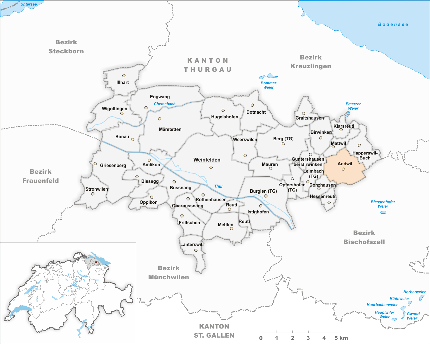 Municipality Andwil